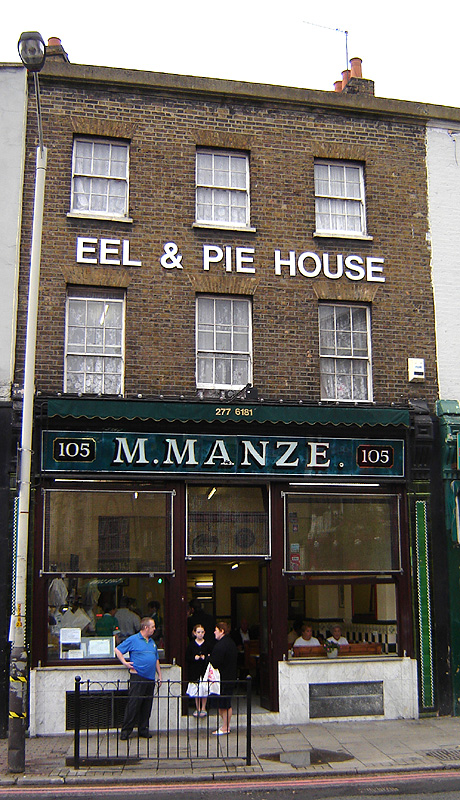 Manze's Eel and Pie House, Peckham, Southwark, London. 29 October 2005. Photographer: Fin Fahey